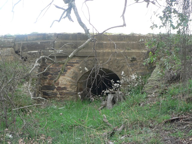 Towrang Convict Stockade: Culvert located on the same side of the Hume Highway as the powder magazine and grave sites.